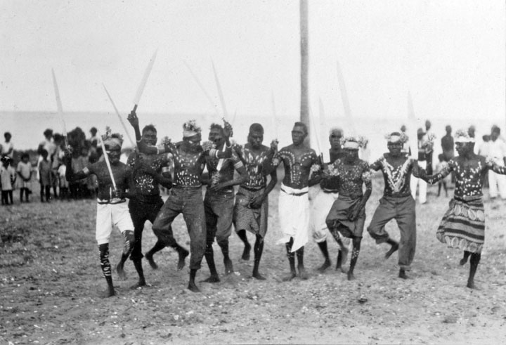 Dancers, Mapoon.